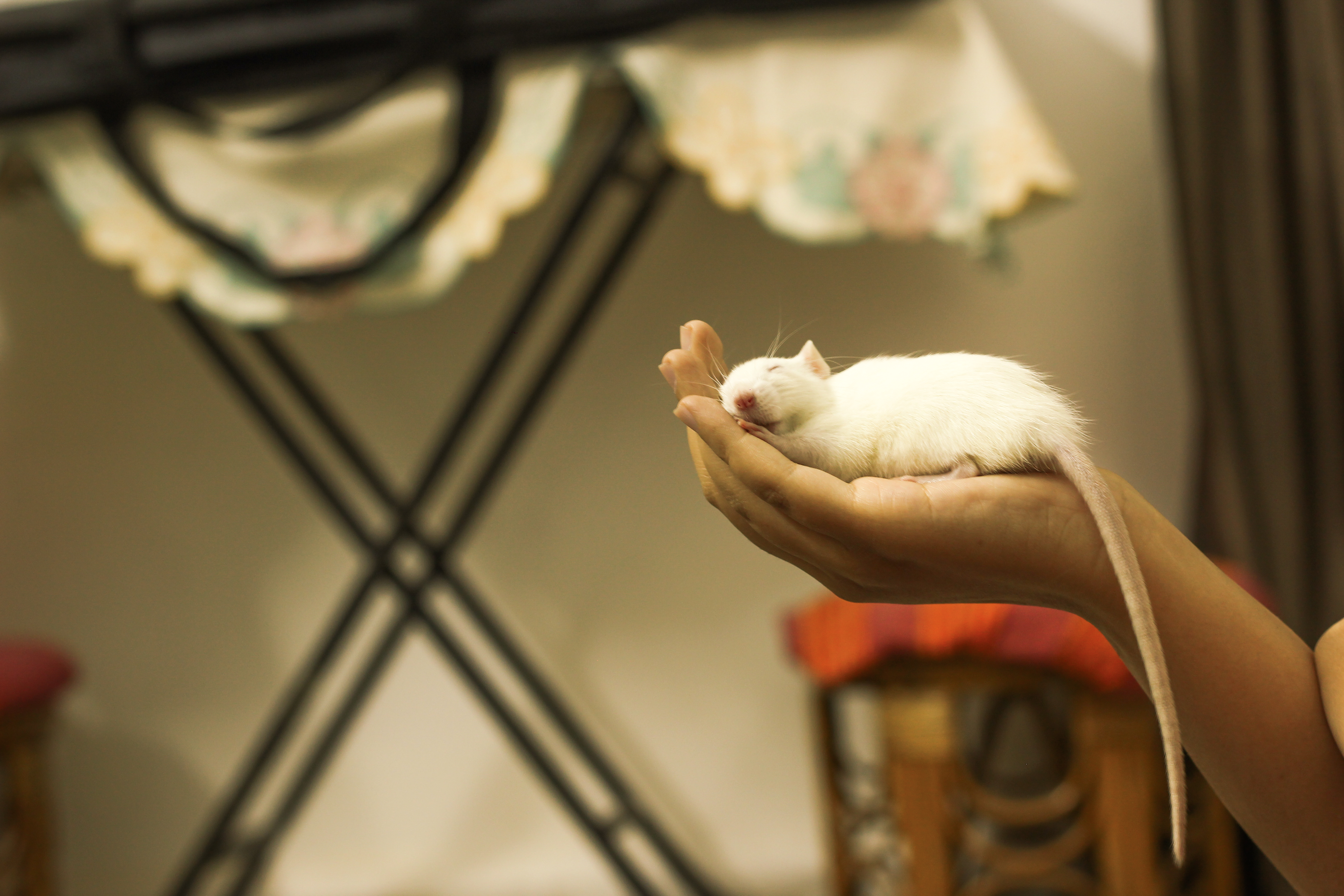 i have never seen any grown up sleeping so peacefully .. if you want to, look at this creature ..